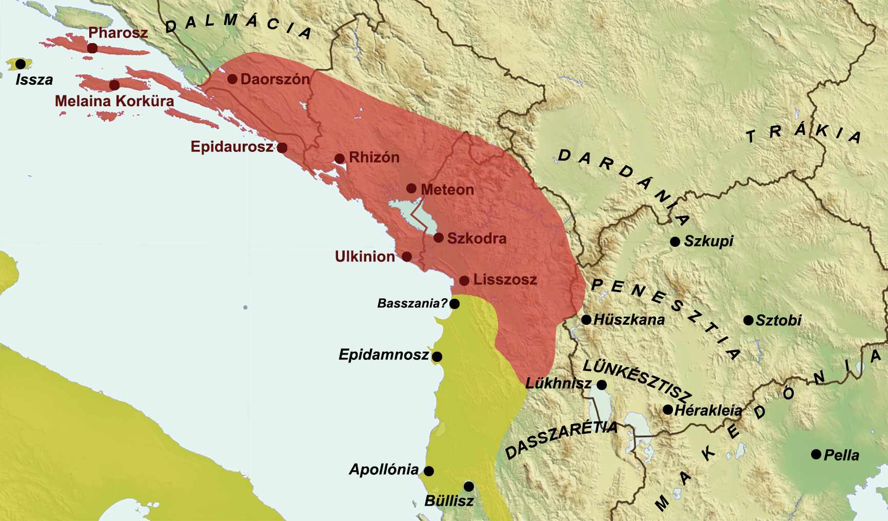 Approximative territory of the Illyrian Kingdom of Gentius (red area) and the Roman protectorate (yellow) right before the Third Illyrian War in 169 BC with Hungarian labels. Map based on multiple books and papers: Wilkes 1992: John Wilkes: The Illyrians. Oxford; Cambridge: Blackwell. 1992. = The Peoples of Europe, ISBN 0631146717 - Marjeta Šašel Kos: The Roman conquest of Illyricum (Dalmatia and Pannonia) and the problem of the northeastern border of Italy. Studia Europaea Gnesnensia, VII. évf. (2013) 169–200. o. - Neritan Ceka: The Illyrians to the Albanians. Tirana: Migjeni. 2013. ISBN 9789928407467